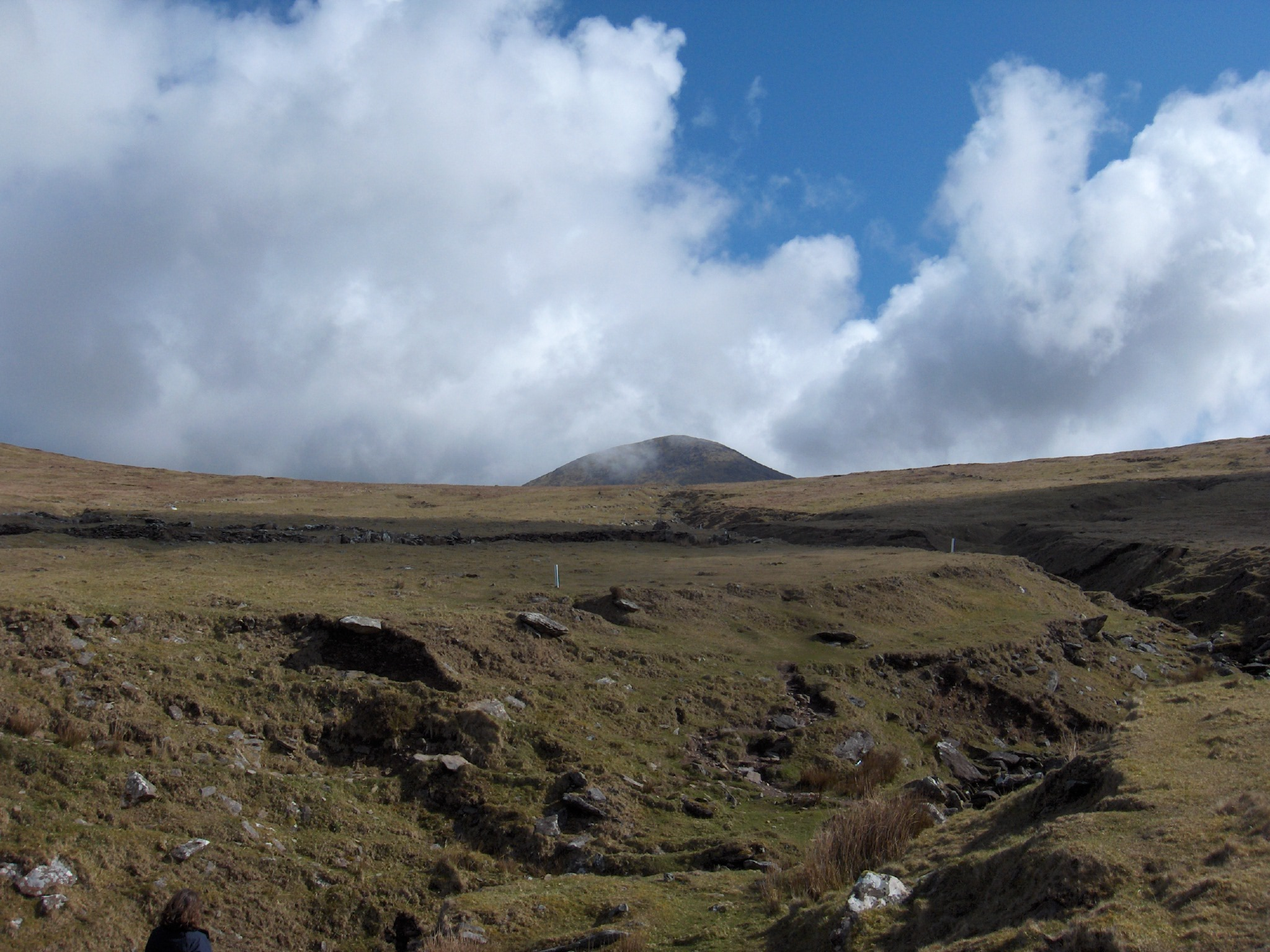 Mount Brandon, County Kerry, Ireland